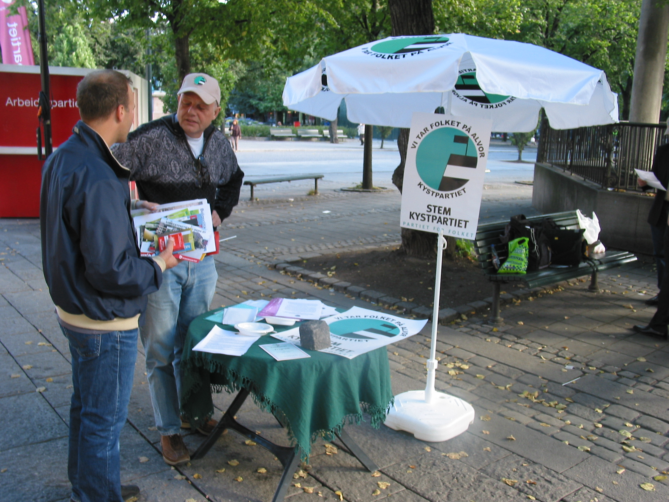 "Booth" of the Coastal Party of Norway (Kystpartiet) during the campaign before the Norwegian local elections, 2007. Karl Johan's street, Oslo, July 2007.